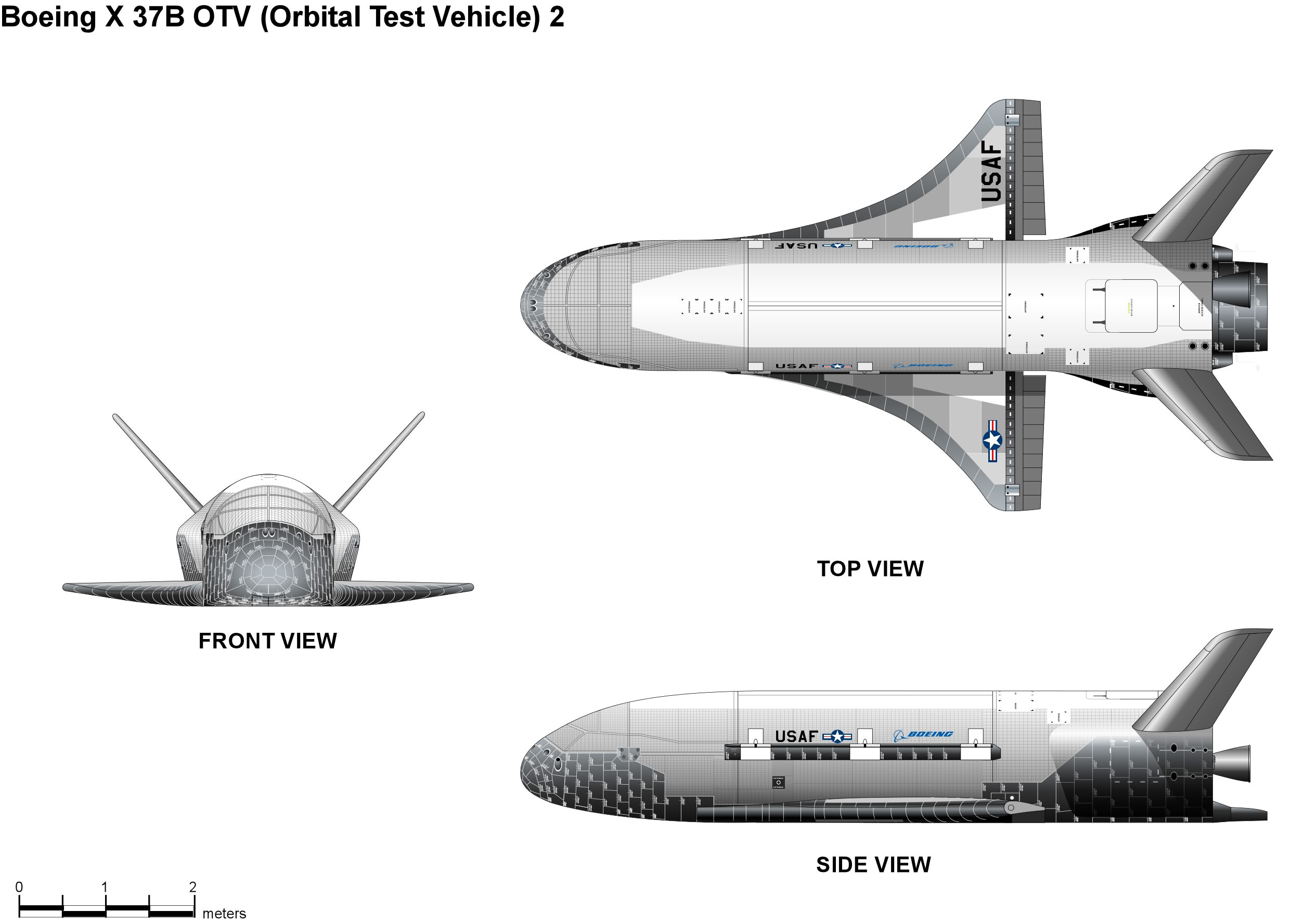 X-37B Three views